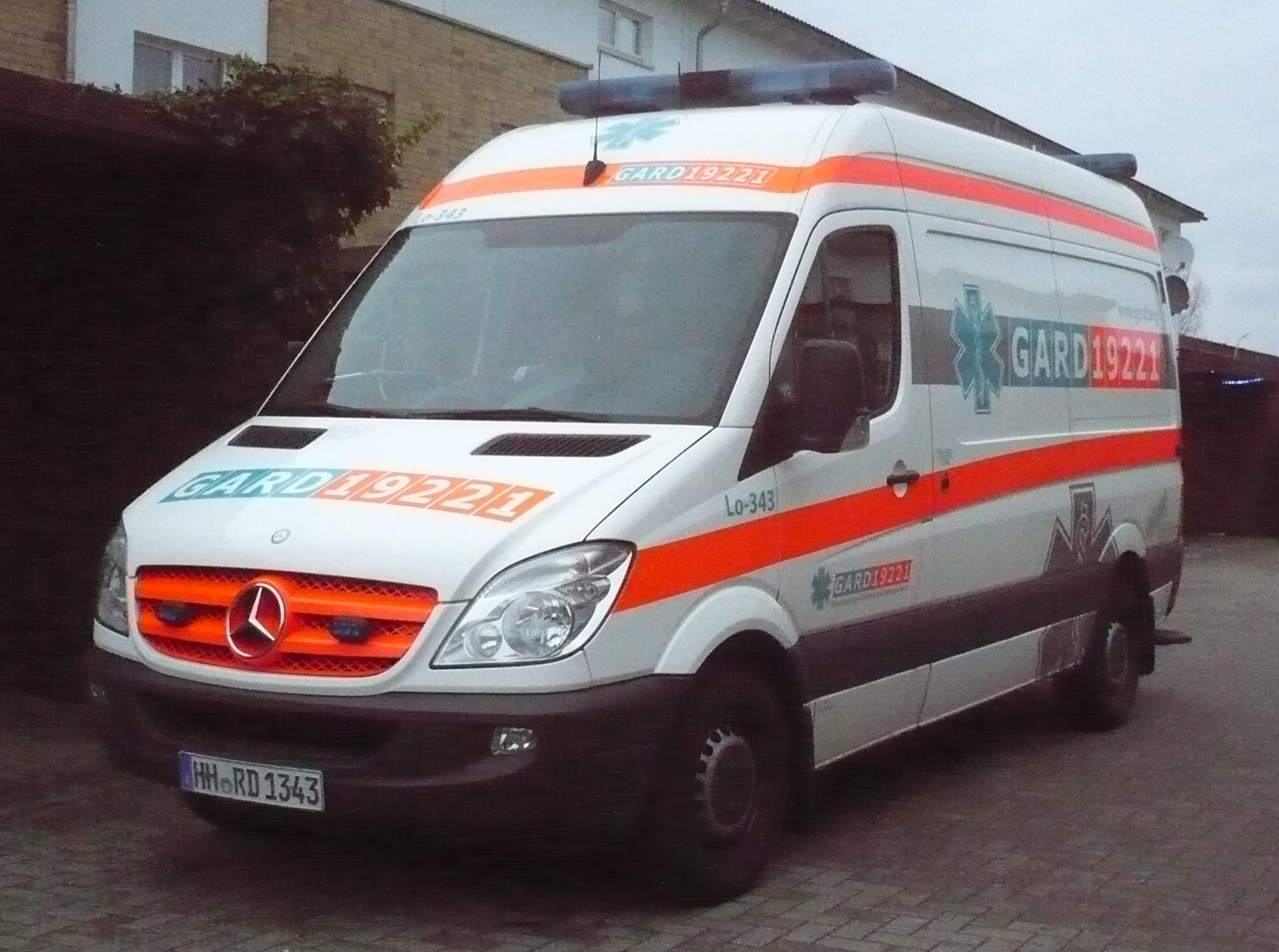 Ambulance from GARD in Hamburg